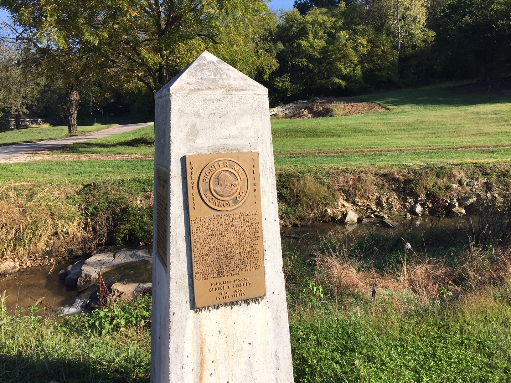 This obelisk monument was placed at the mill site in 1976 by the family of Gottlieb Ziebold. Immediately behind the monument is the Monroe City Creek which provided water to turn the mill wheel. Across the creek, the remains of the mill's stone foundation and water wheel arch are still visible in this 2016 photo.